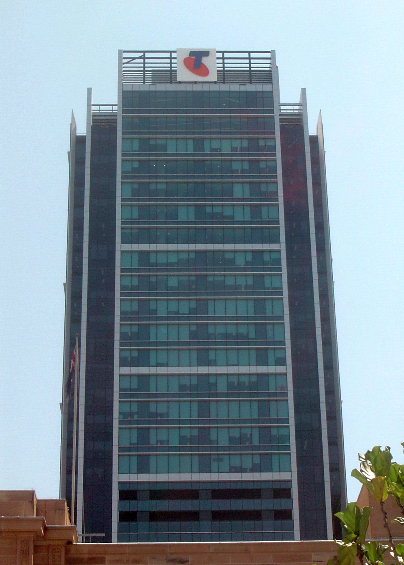 Photo of upper floors of 275 George Street skyscraper in Brisbane, Australia, taken from King George Square.